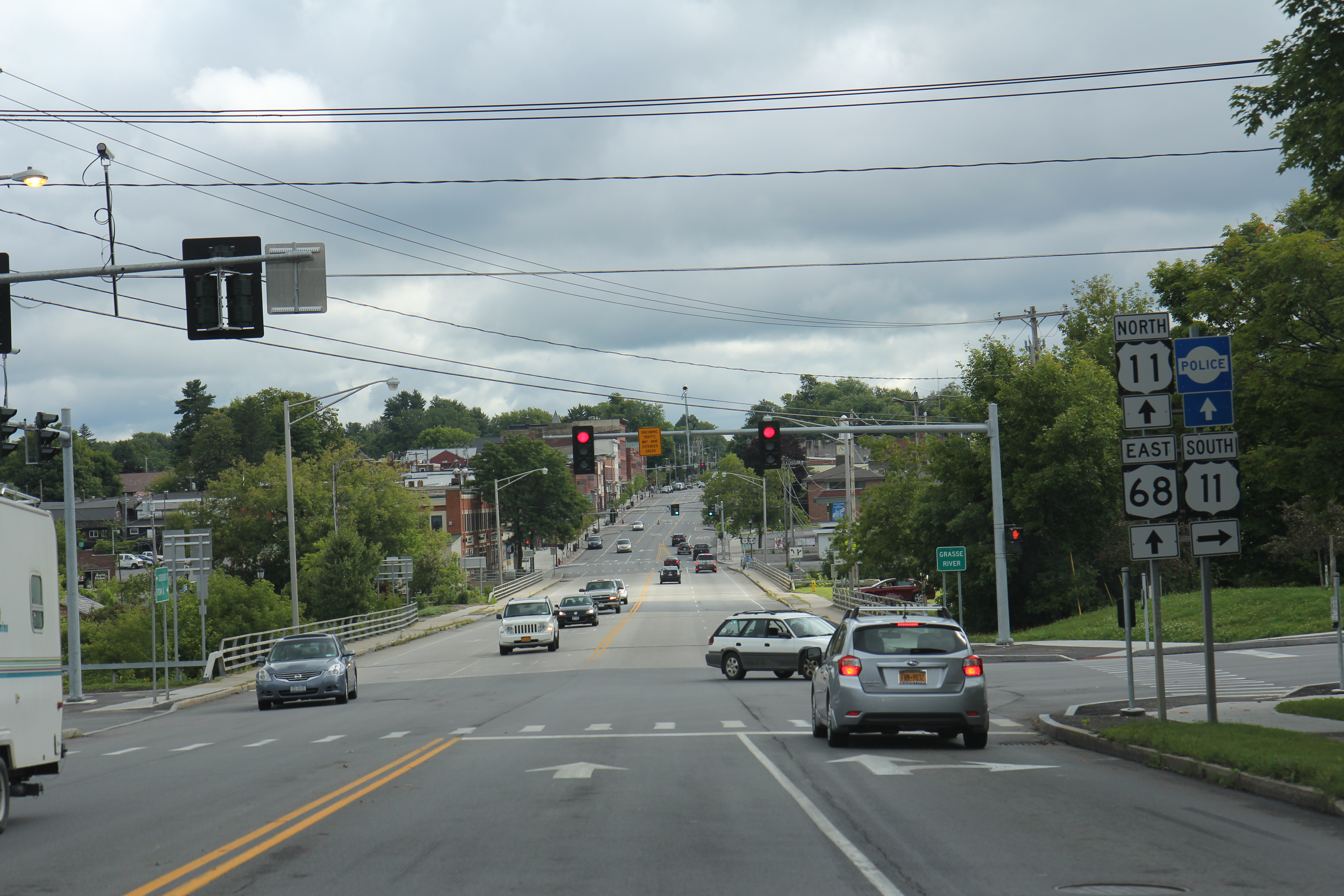 US11 and NY68 in Canton, NY